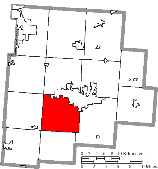 Map of the municipal and township boundaries of Fairfield County, Ohio, United States, as of the 2000 census, with the location of Hocking Township highlighted. Township borders are shown only in unincorporated areas in order to differentiate incorporated and unincorporated areas more clearly.